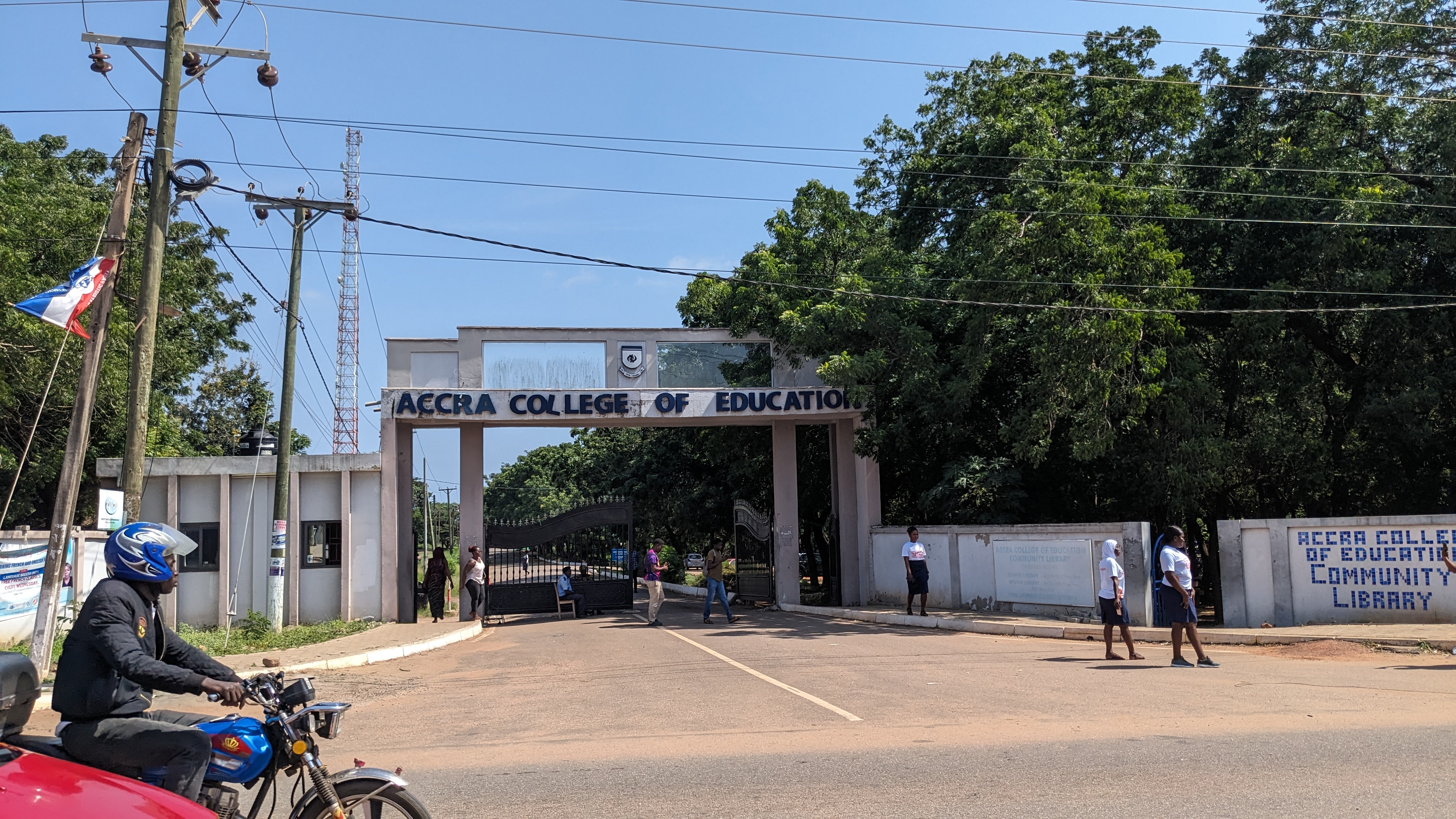 College gate.